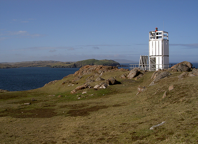 Lighthouse Muckle Roe Quite a walk but well worth it.